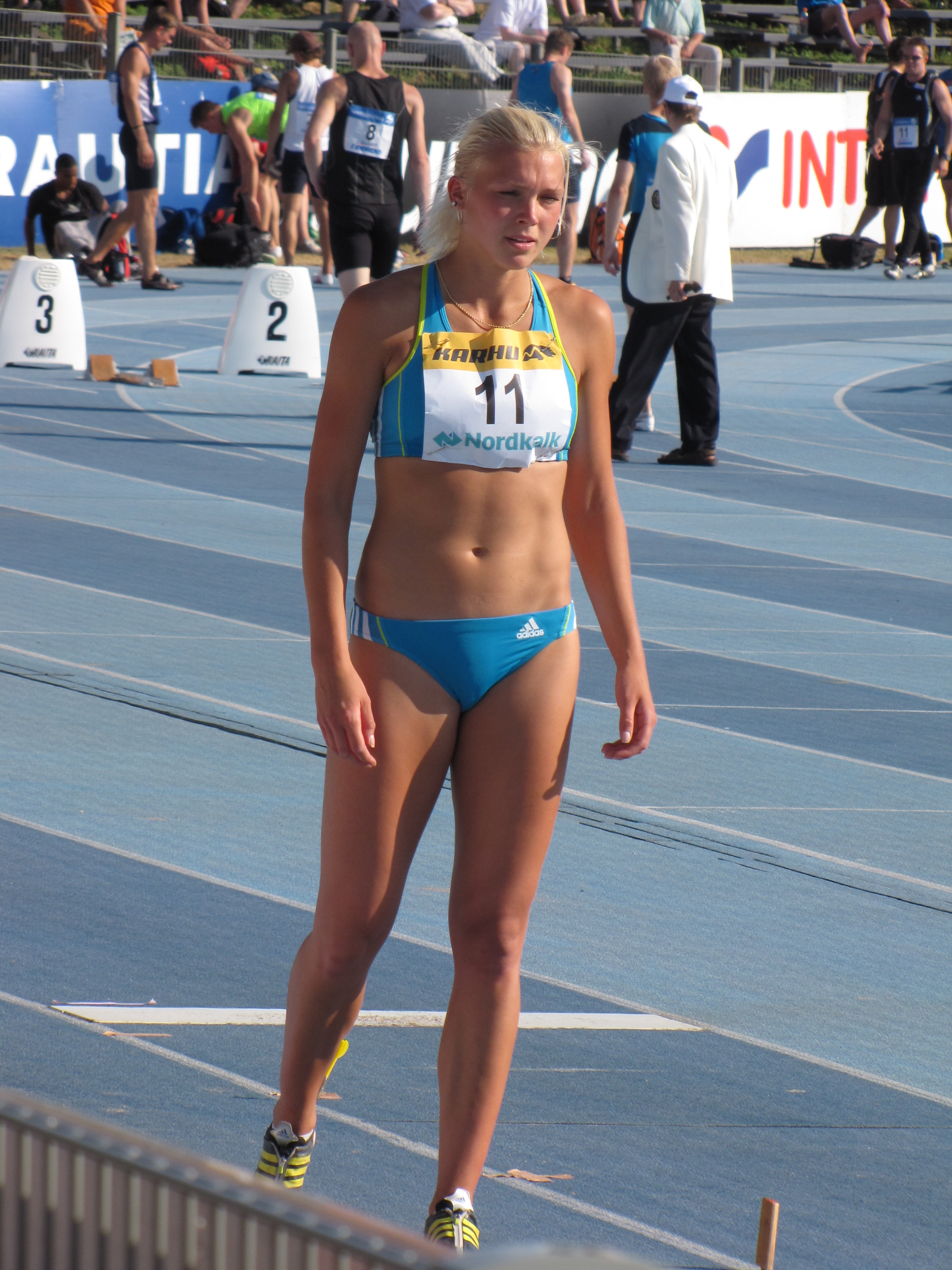 Estonian triple jumper Kaire Leibak competing at Lappeenranta Games 2010.